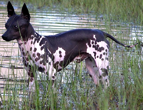 American Hairless Terrier - Tagnon